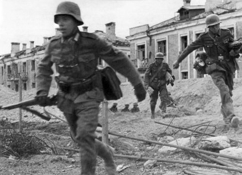 German troops sallying from the long trench by the Schnellhefter Block in Stalingrad North